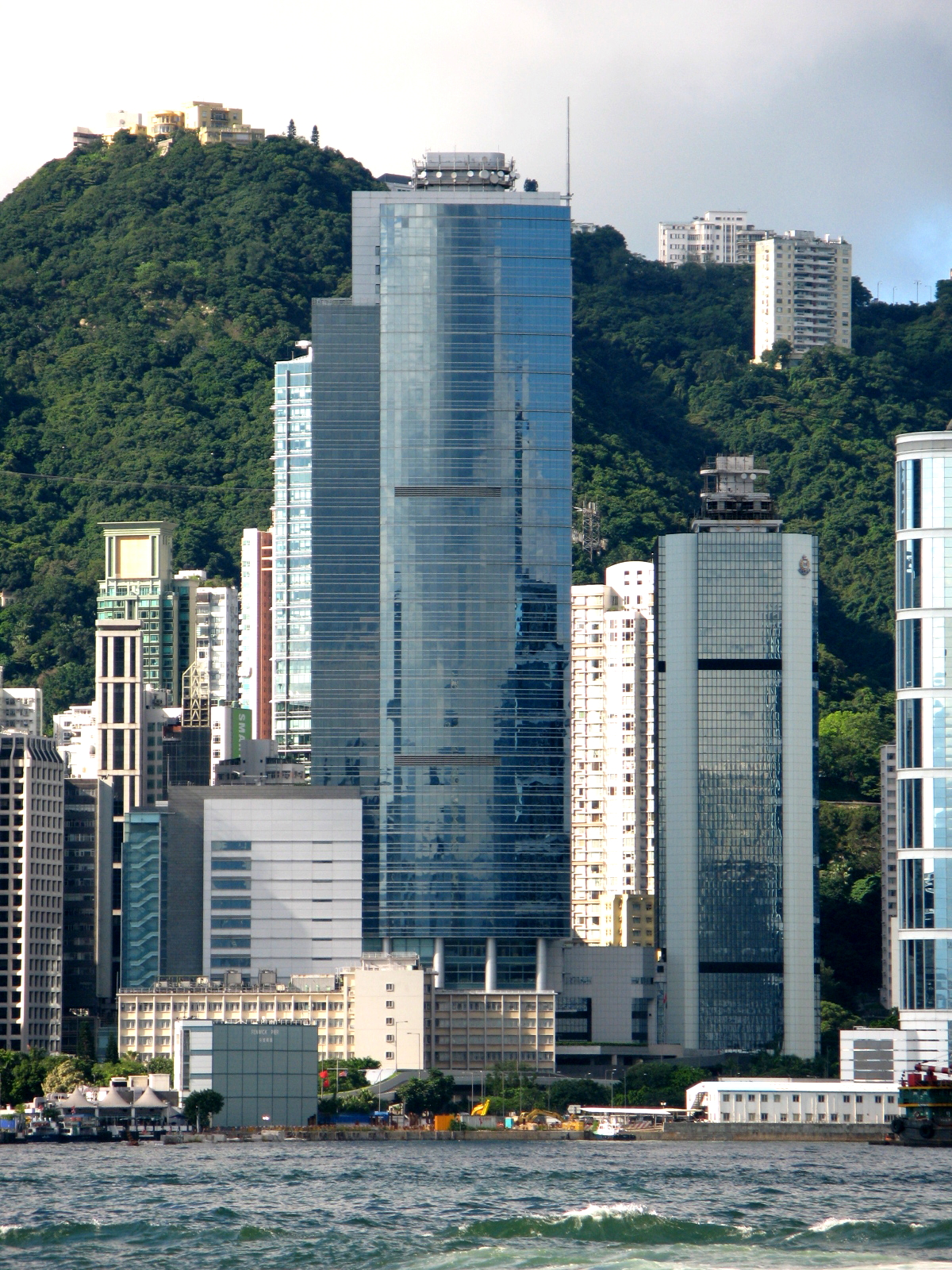 Hong Kong Arsenal House Police Headquarters 香港警察總部警政大樓